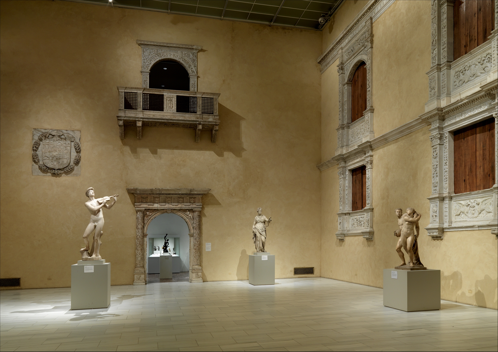 Spanish, Almería; Period room; Sculpture-Architectural